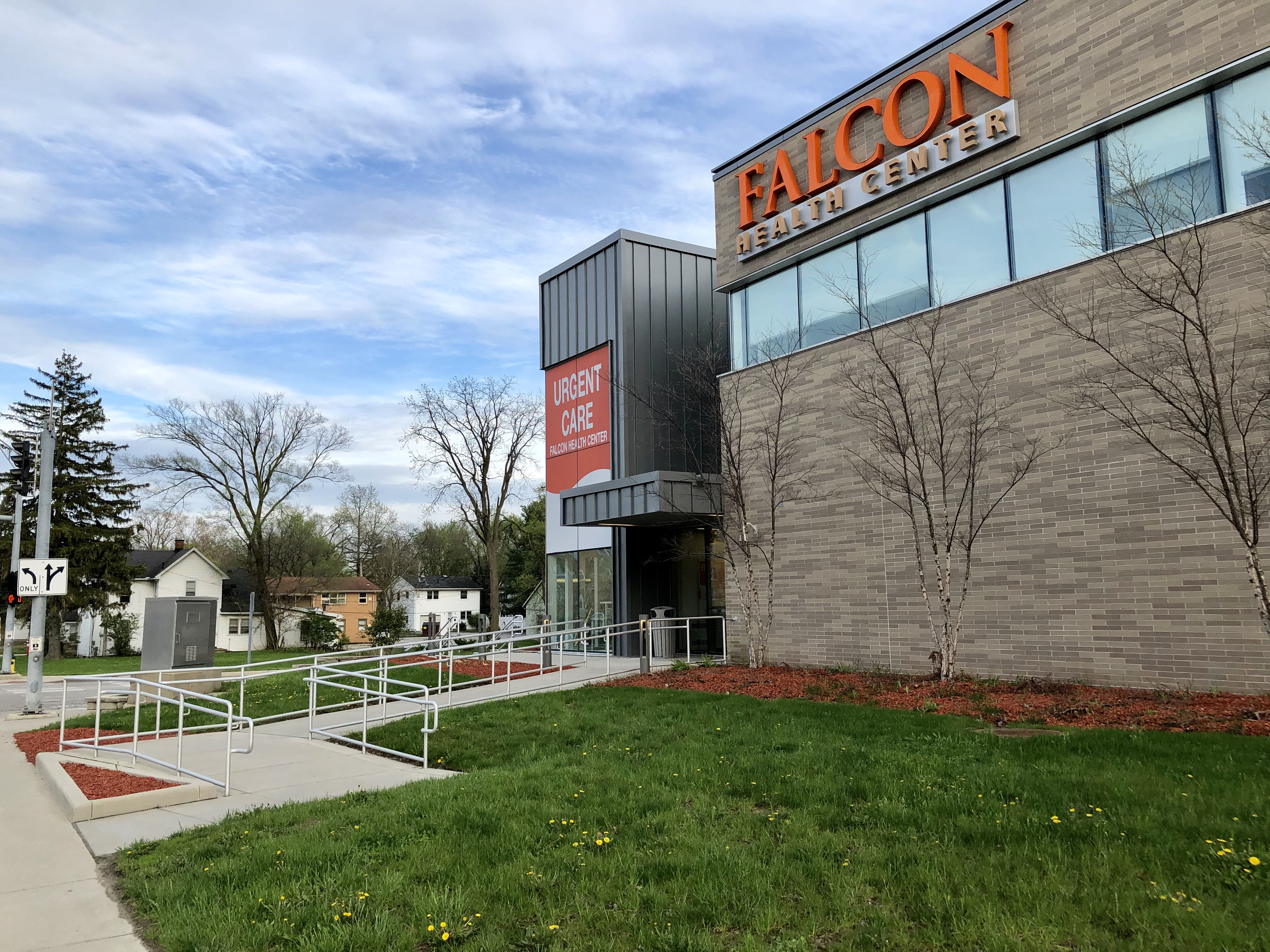 The Falcon Health Center of Bowling Green State University. Functions as an urgent care and pharmacy.